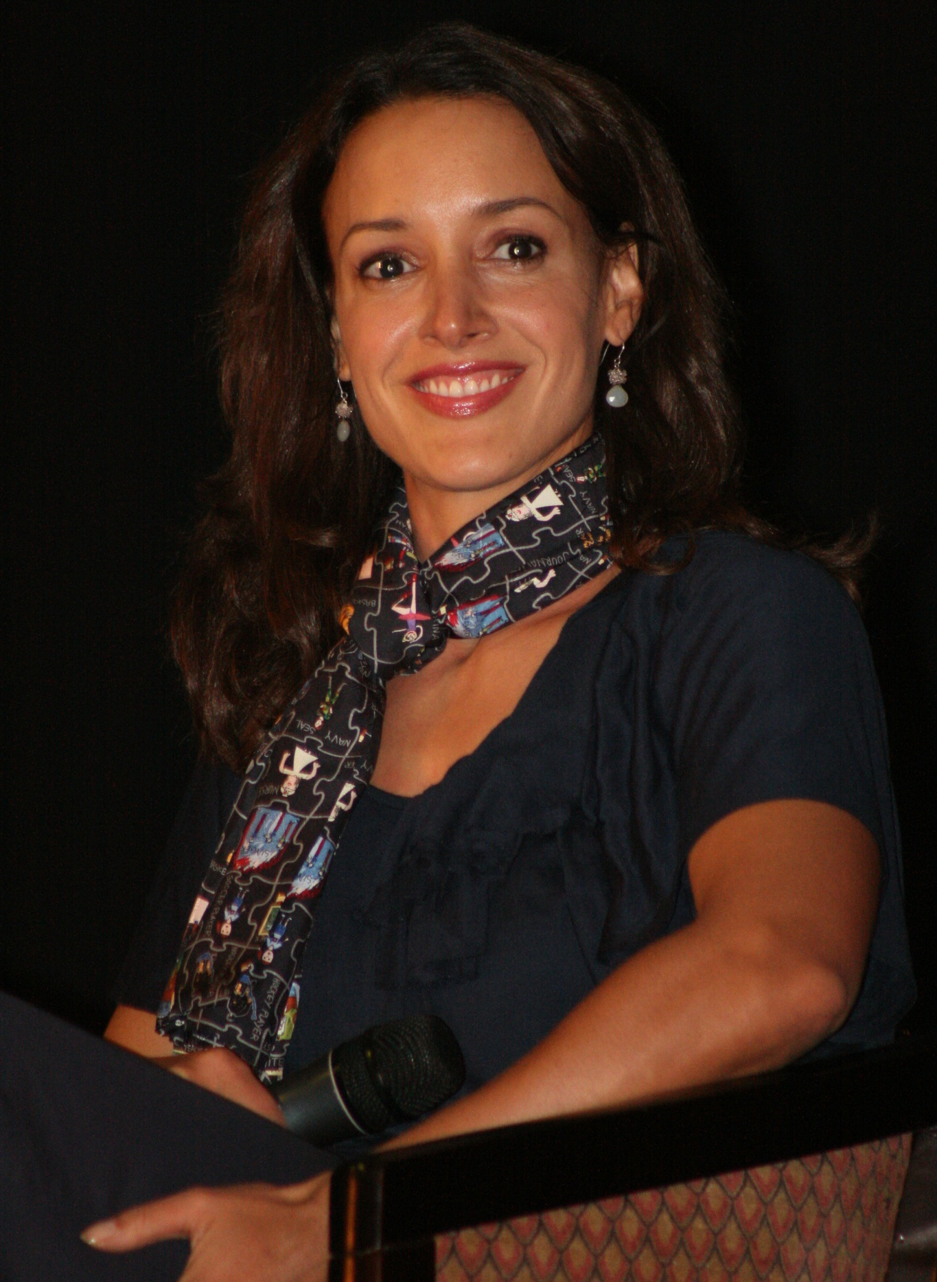 Jennifer Beals at the 2008 L5 convention in Blackpool